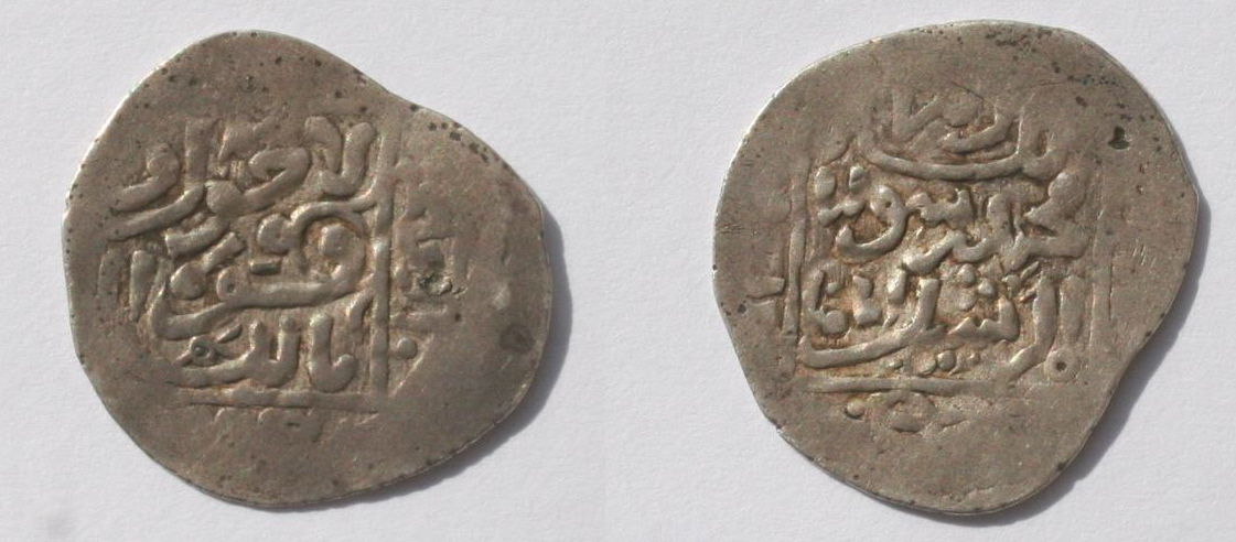 Coins of the 'Alawi Sharifs : Moulay ar-Rachid (1081 / 1670-1671)